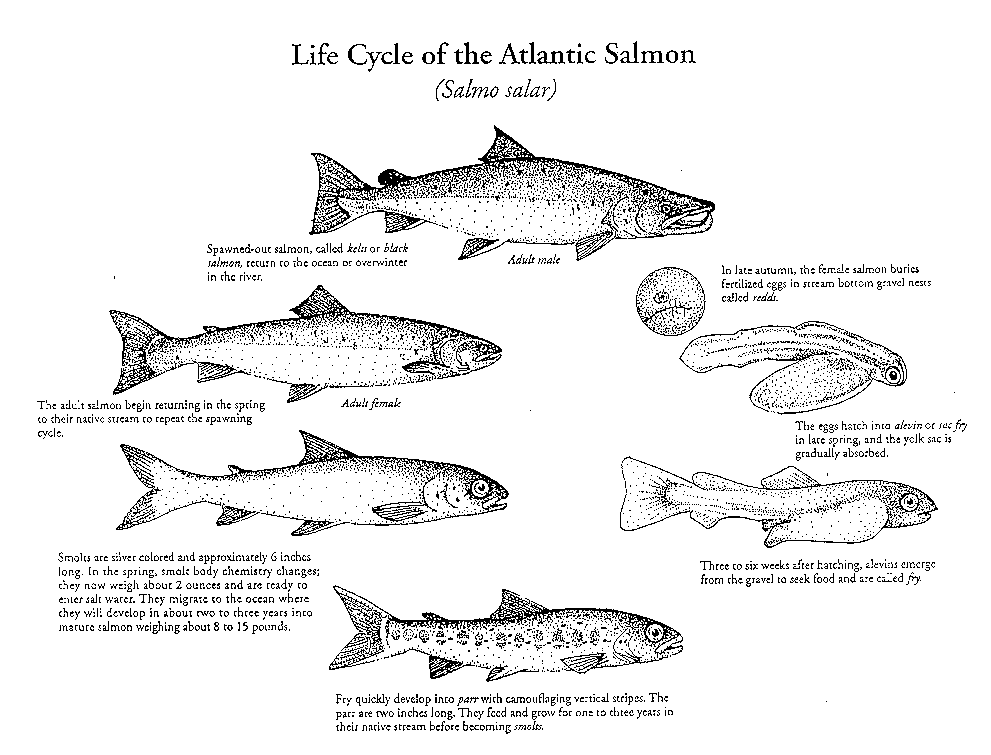 Life cycle of the Atlantic salmon